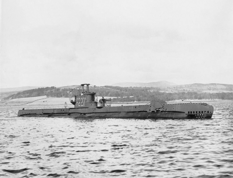 British S class submarine HMSM SPITEFUL underway in the Clyde on completion.